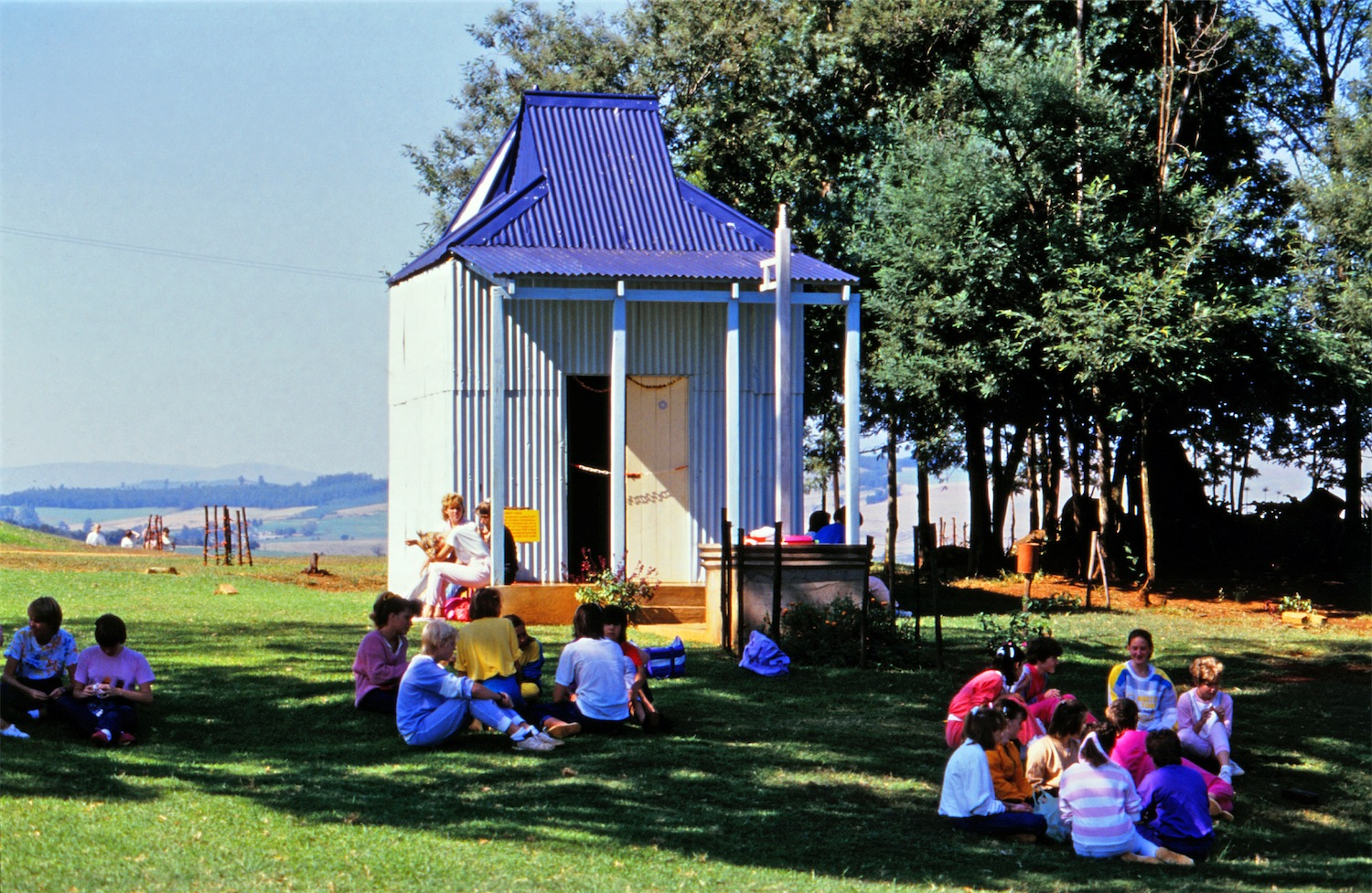 This media shows a South African Protected Site with SAHRA file reference 9/2/407/0004.